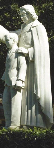 The statue that lies on the front lawn of the Southern Cross Catholic College, Redcliff NSW. An inscription reads "I have no hands, but yours" at the foot of the statue.